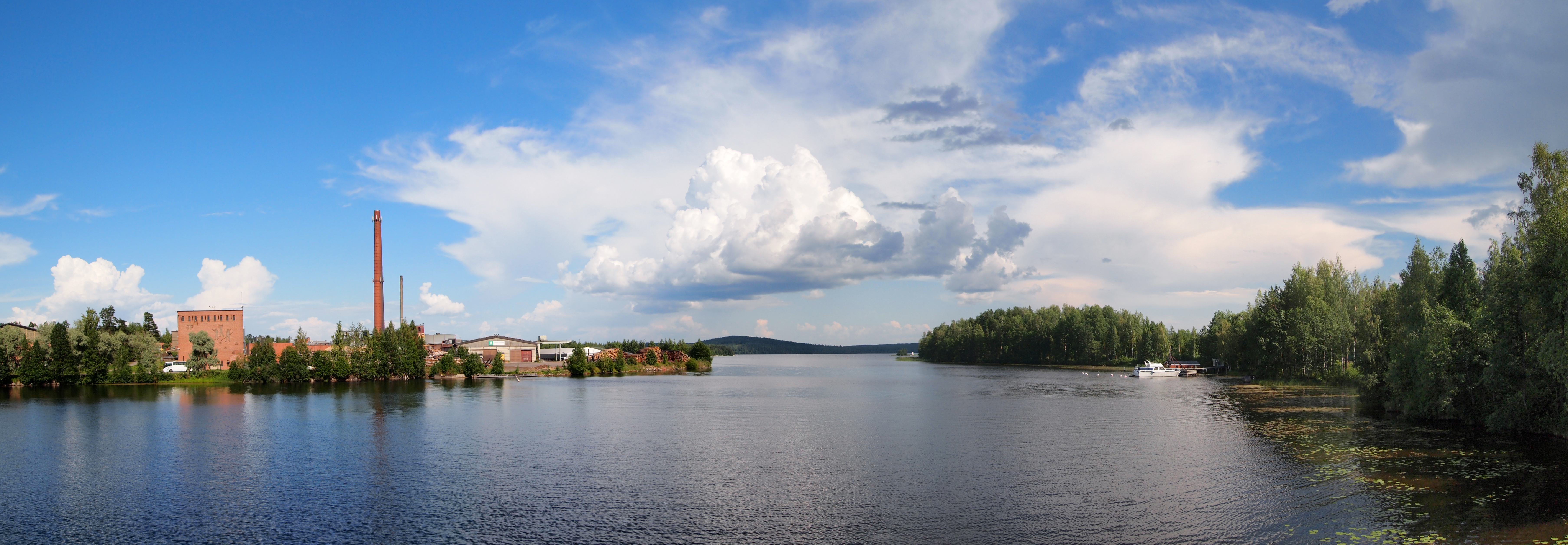 View from Louhunsalmi bridge to lake Päijänne. On the left is plywood mill in the area Säynätsalo and on the right is area Lehtisaari, Jyväskylä. This photograph was taken with an Olympus E-PL1